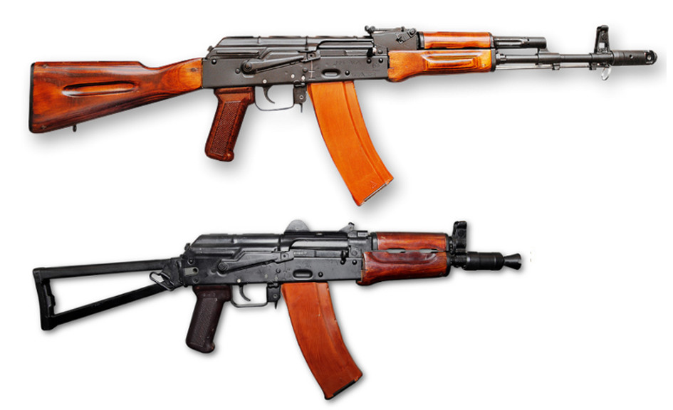 Comparison AK-74 and AKS-74U